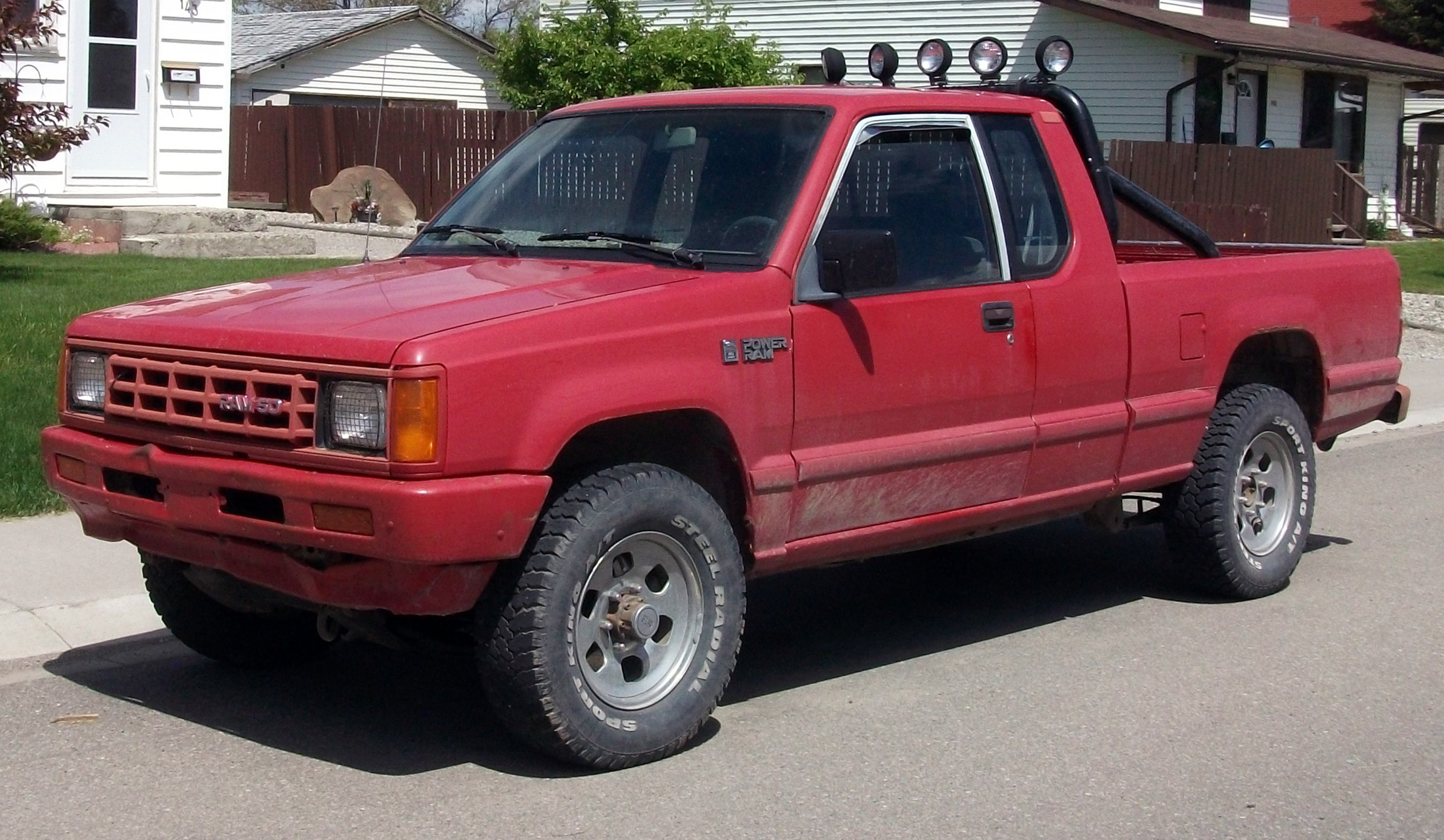 A Dodge Power Ram which was a badge engineered Mitsubishi truck. This one is a 4x4 super cab.